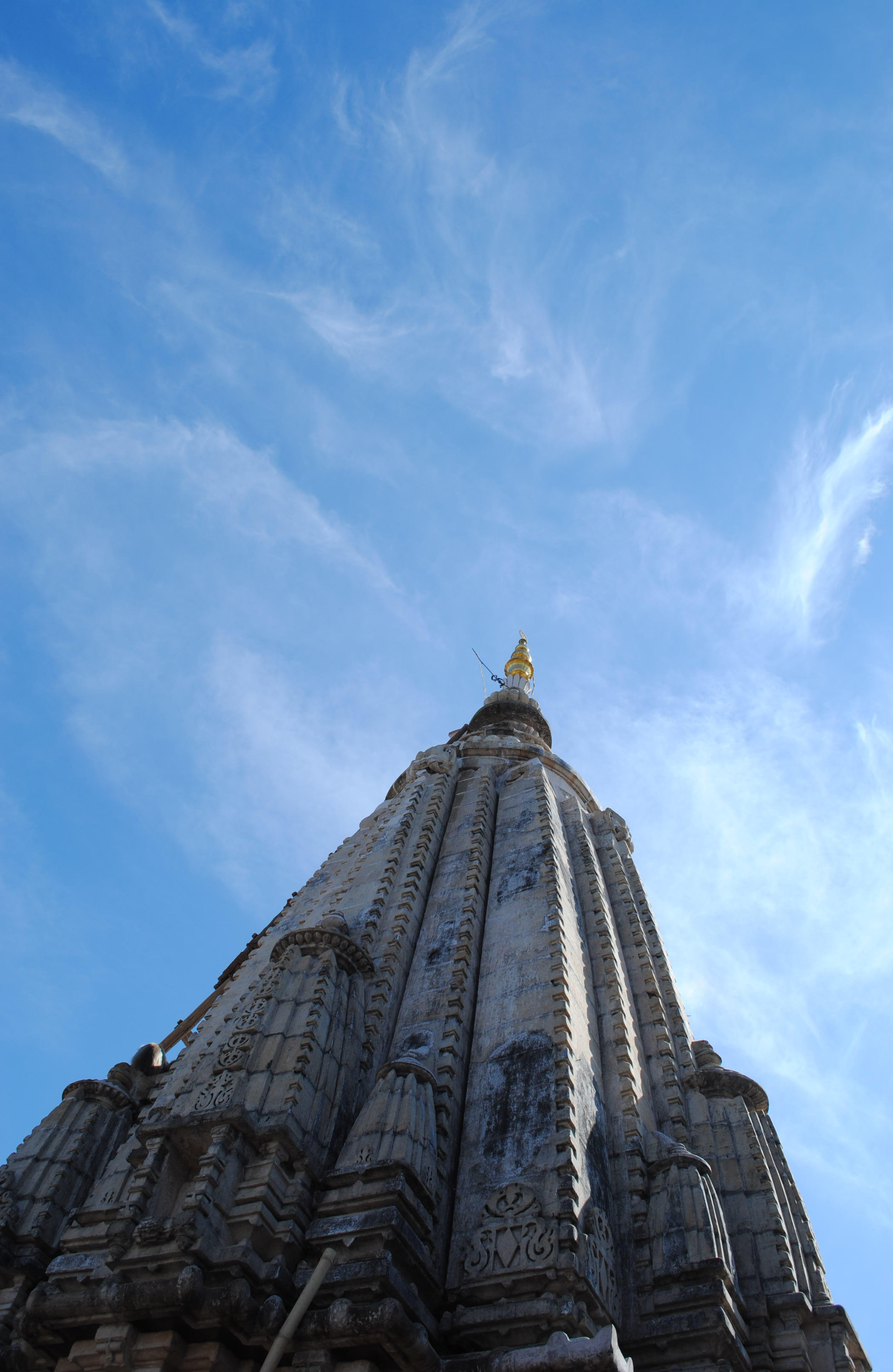 The Ram Temple in Ramtek is a temple dedicted to Lord Ram. Legend says that Lord Rama stayed for awhile at Ramtek, along with his wife Sita and brother Lakshmana, while on his exile. Kalidasa wrote his epic poem, Meghdoot in the hills of Ramtek.